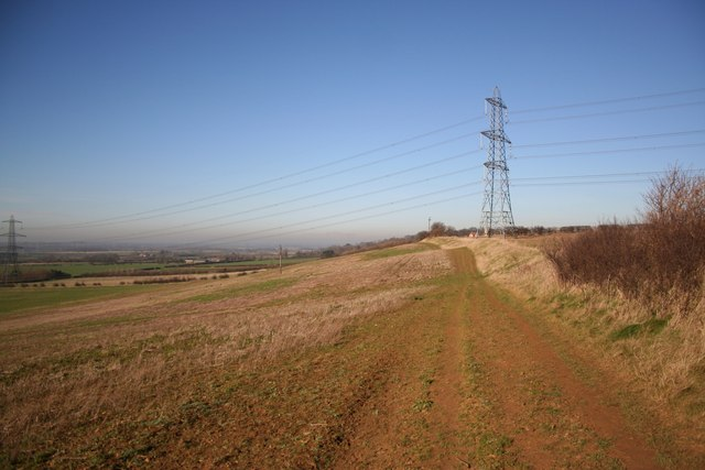 Lincoln Cliff On the edge of Lincoln Cliff near Boothby Graffoe on the Viking Way